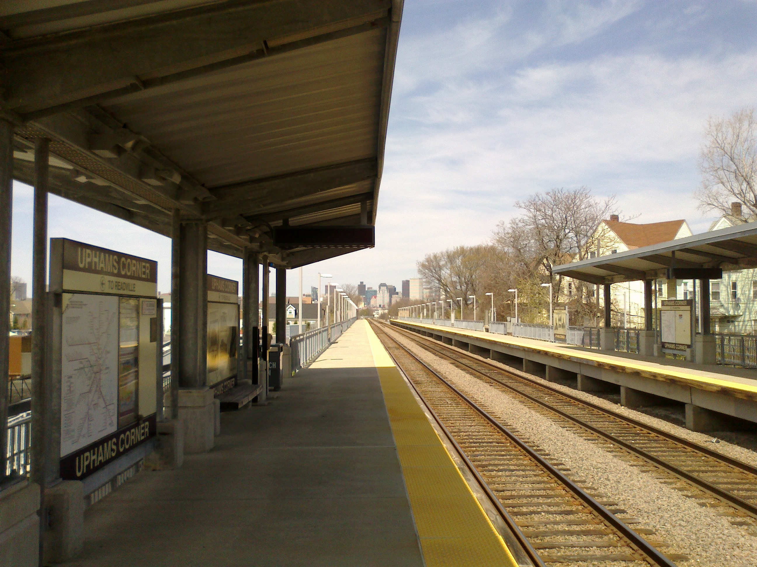 Looking inbound from the outbound platform at Uphams Corner station